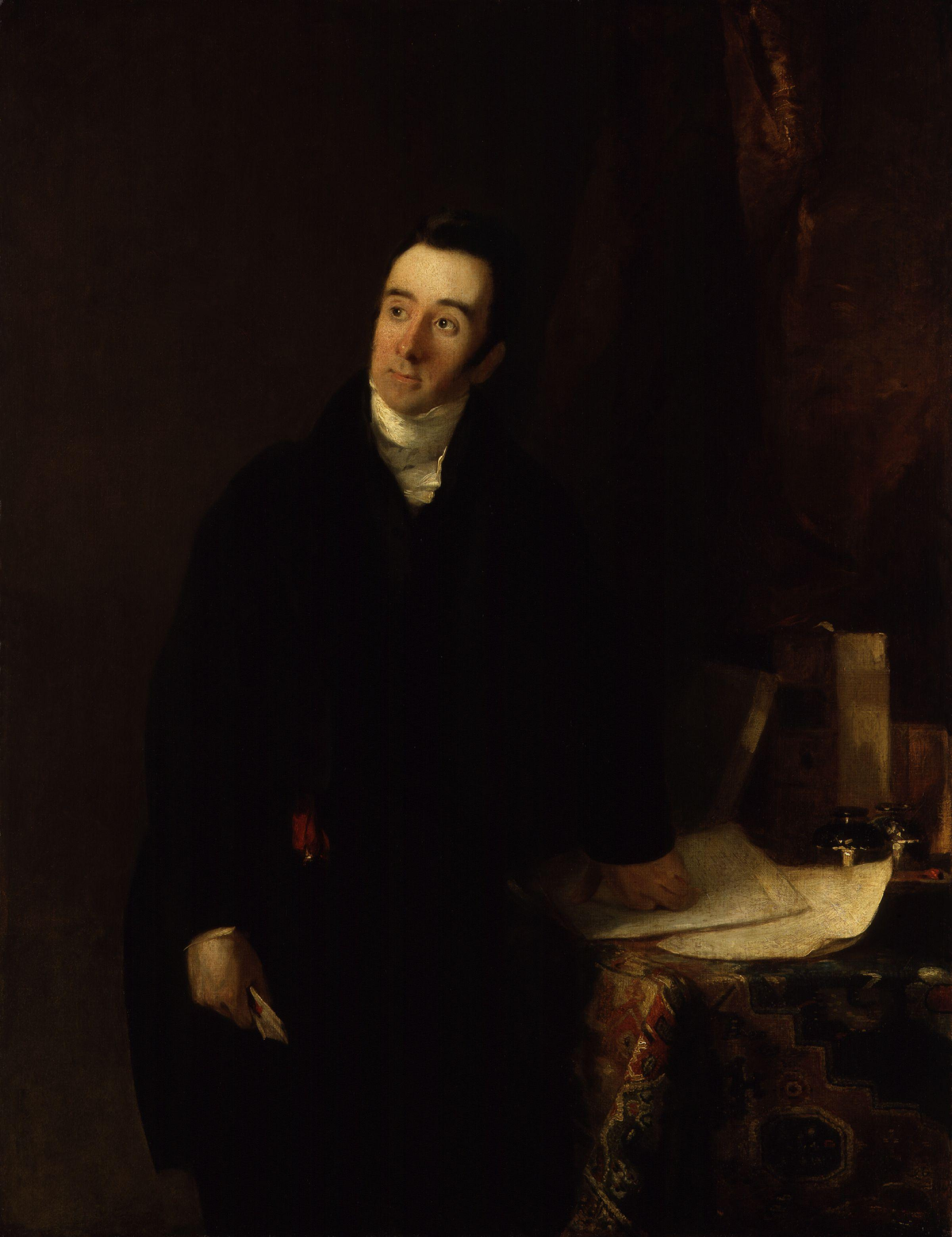 Francis Jeffrey, Lord Jeffrey, by Andrew Geddes (died 1844). All images in this batch have been confirmed as author died before 1939 according to the official death date listed by the NPG.